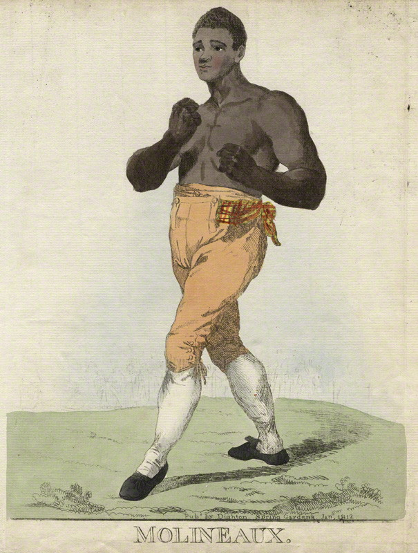 Hand-coloured etching of Tom Molineaux by and published by Robert Dighton